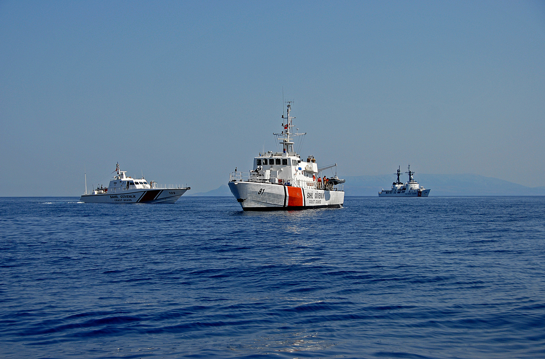 AEGEAN SEA - (Left to right) Two Turkish coast guard patrol boats and the U.S. Coast Guard Cutter Dallas conduct a joint search and rescue exercise Friday, Sept. 12, 2008. Dallas crewmembers and Turkish coast guardsmen conducted search and rescue and law enforcement training as part of the U.S. Navy's theater security cooperation mission. (USCG Photo by PA2 Lauren Jorgensen)